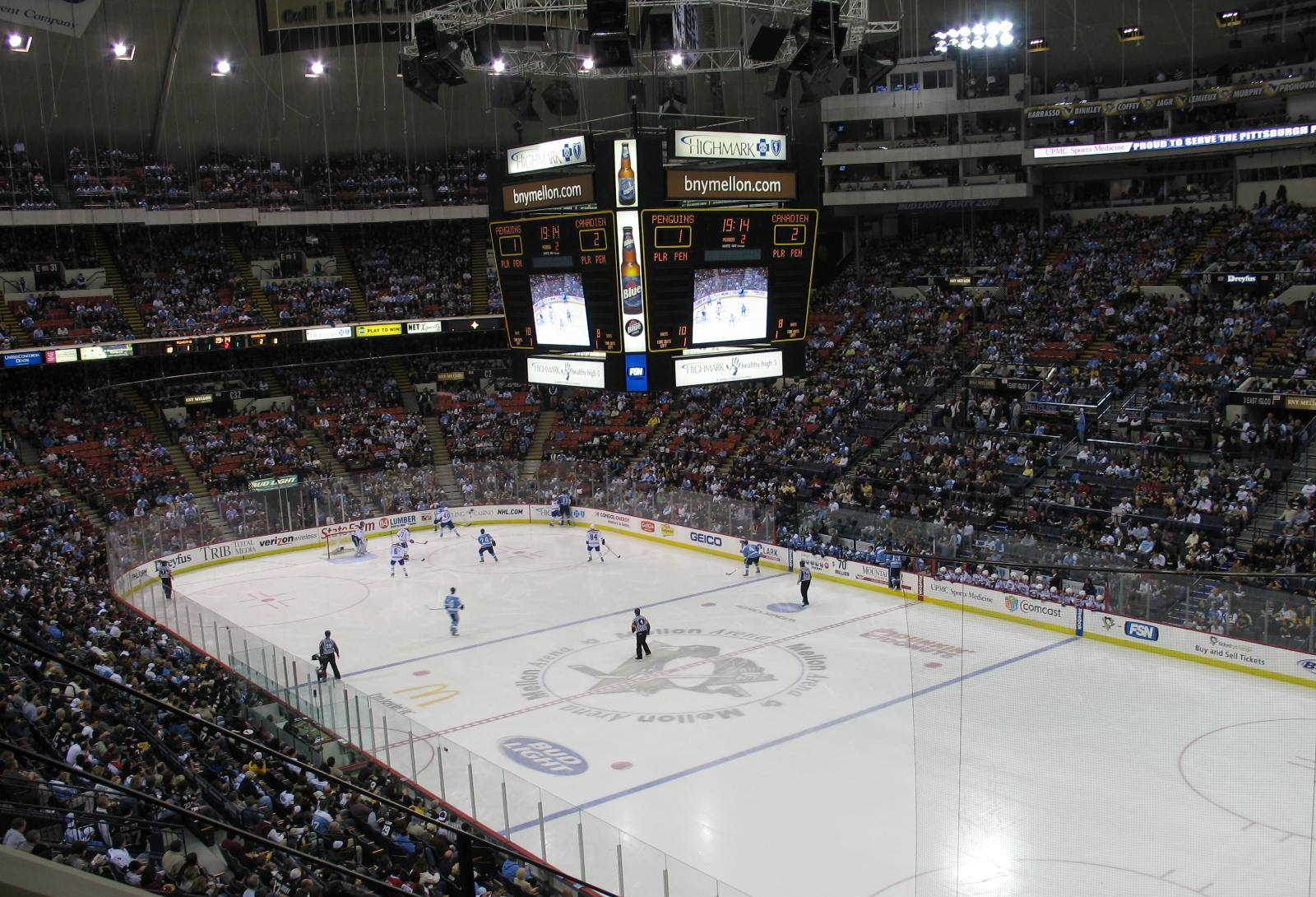 The Mellon Arena during a Penguins game in 2008 vs. the Montreal Canadiens